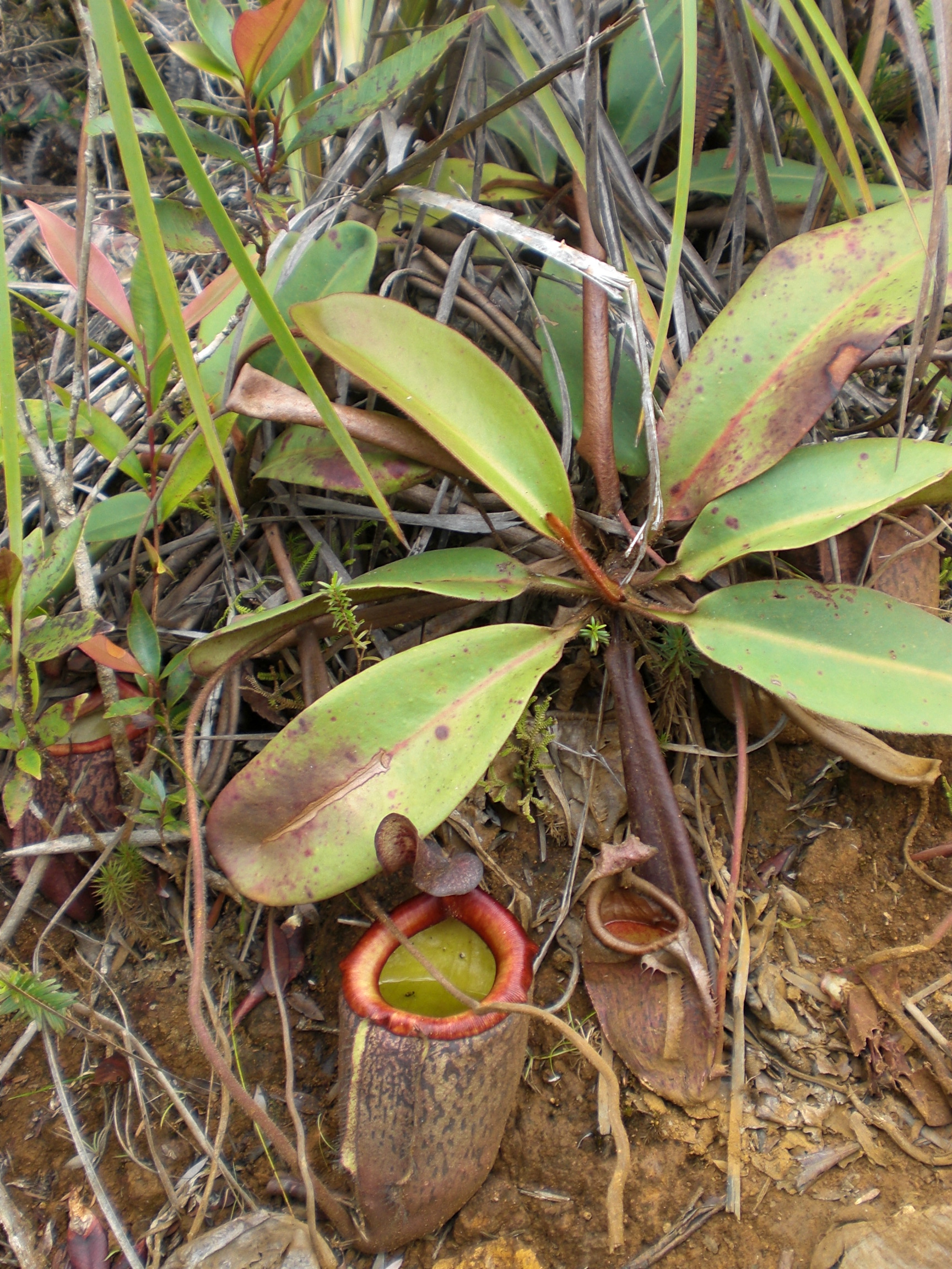 Pitcher plant (Nepenthes sp.) found in Mount Hamiguitan Range, San Isidro, Davao Oriental. Taken from Nov 29-Dec 1, 2009)